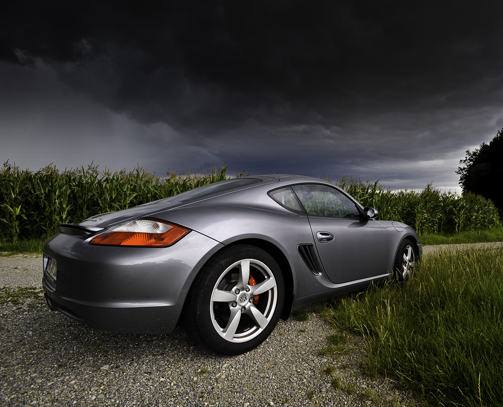 2006 Cayman-S